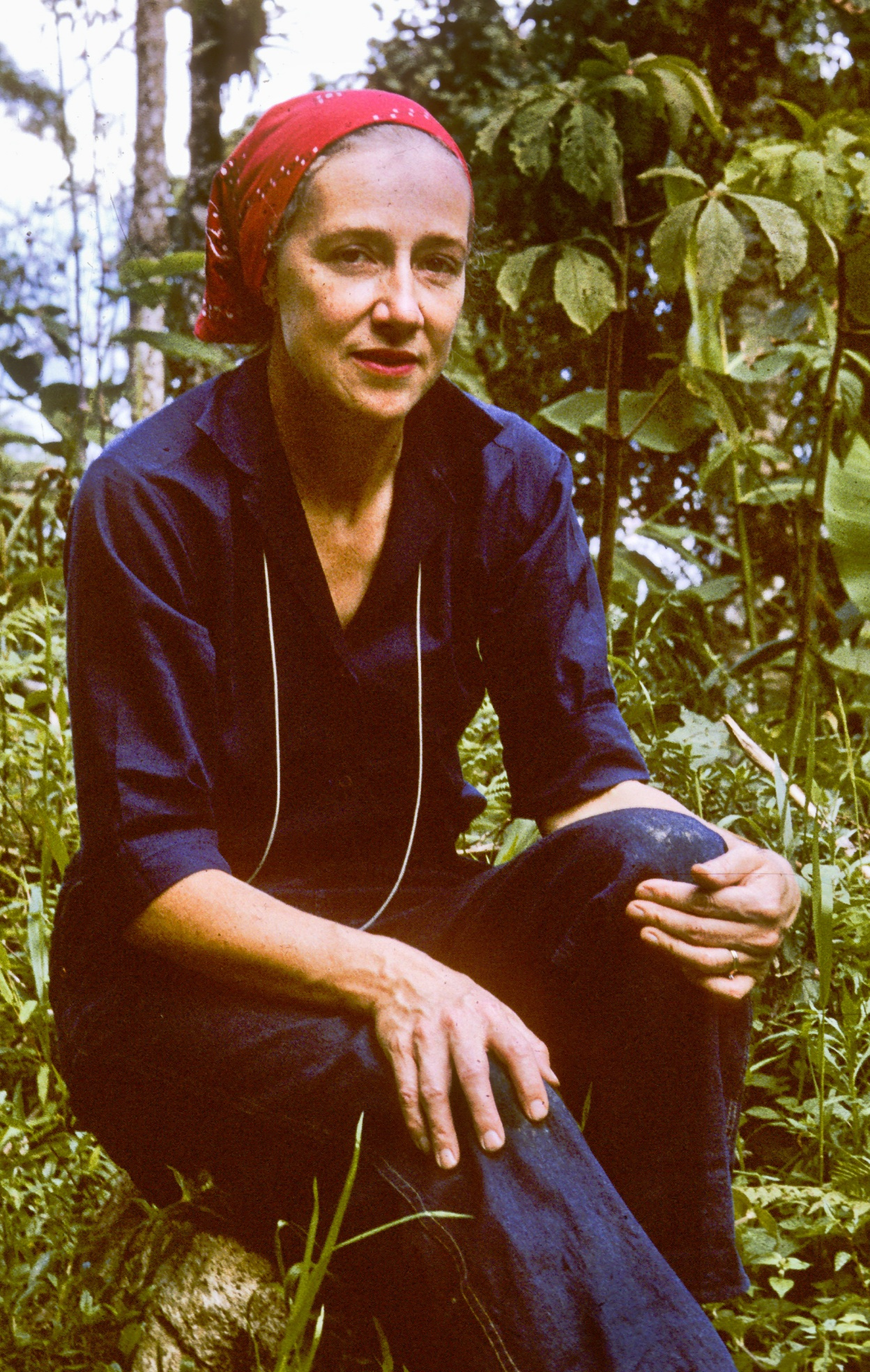 Alice F. Tryon in the field in Brazil ca 1960